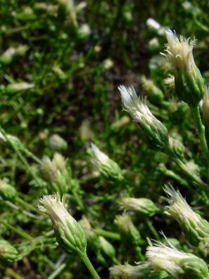 Baccharis vanessae. US Forest Service photo, no copyright.